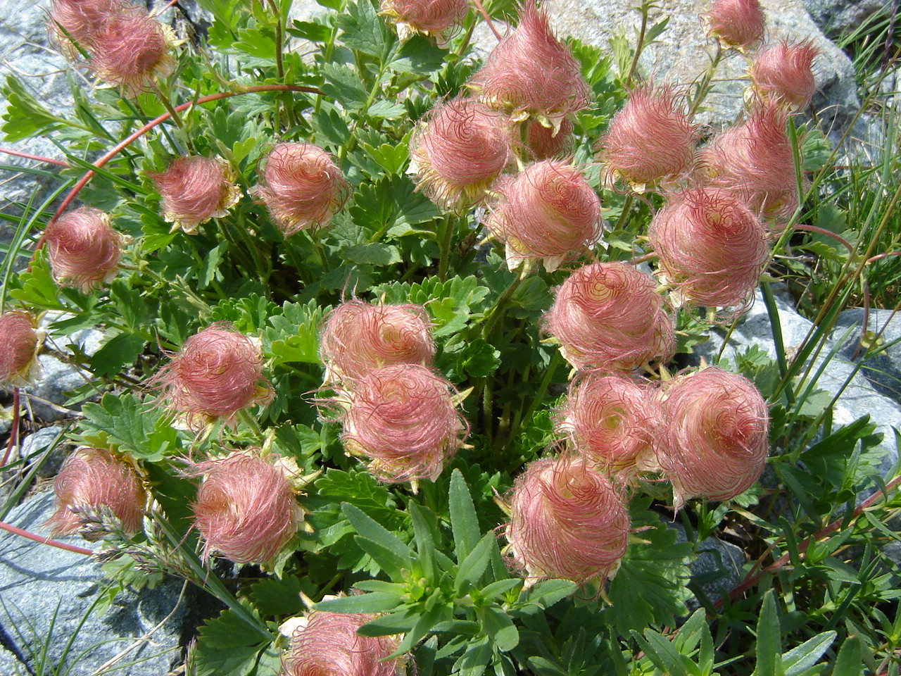 Geum reptans